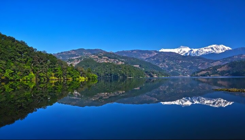 Begnas, Begnas lake, begnas tal, pokhara, lake, nepal, begnas-9, piple hill, enjoy, beautiful, nature, memorable, travel, vacation, holiday, taal, begnash, fish in pokhara, lake in pokhara, lekhnath, lake in lekhnat, 7 lakes, seven lakes, permaculture in begnas, agro farming, organic, stand up paddle in begnas, sup